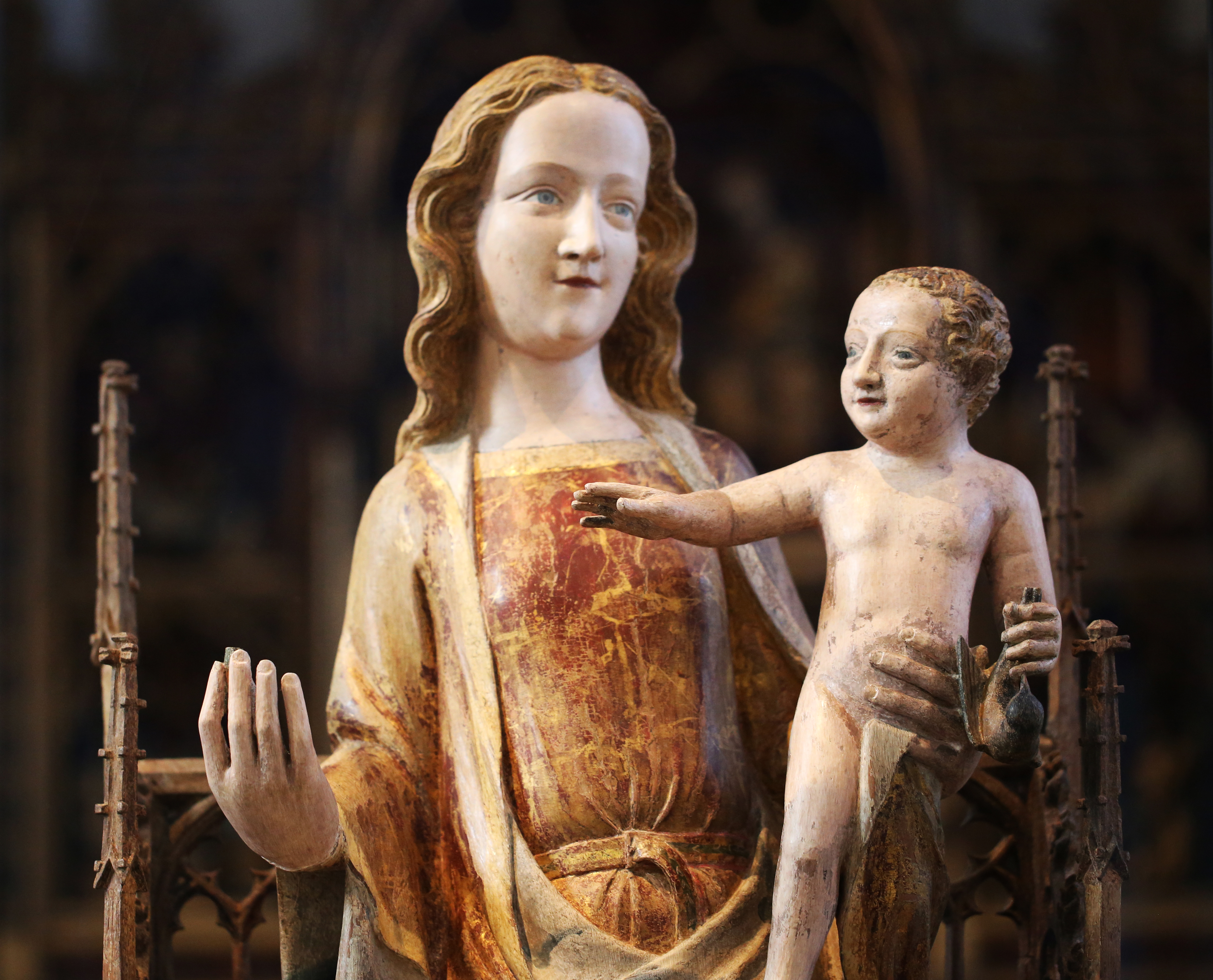 Sculpture of Madonna and Child (first half of the 14th century) named "Dietkirchen Madonna", in the Basilica of St. Johann Baptist and St Peter church in Bonn, Germany